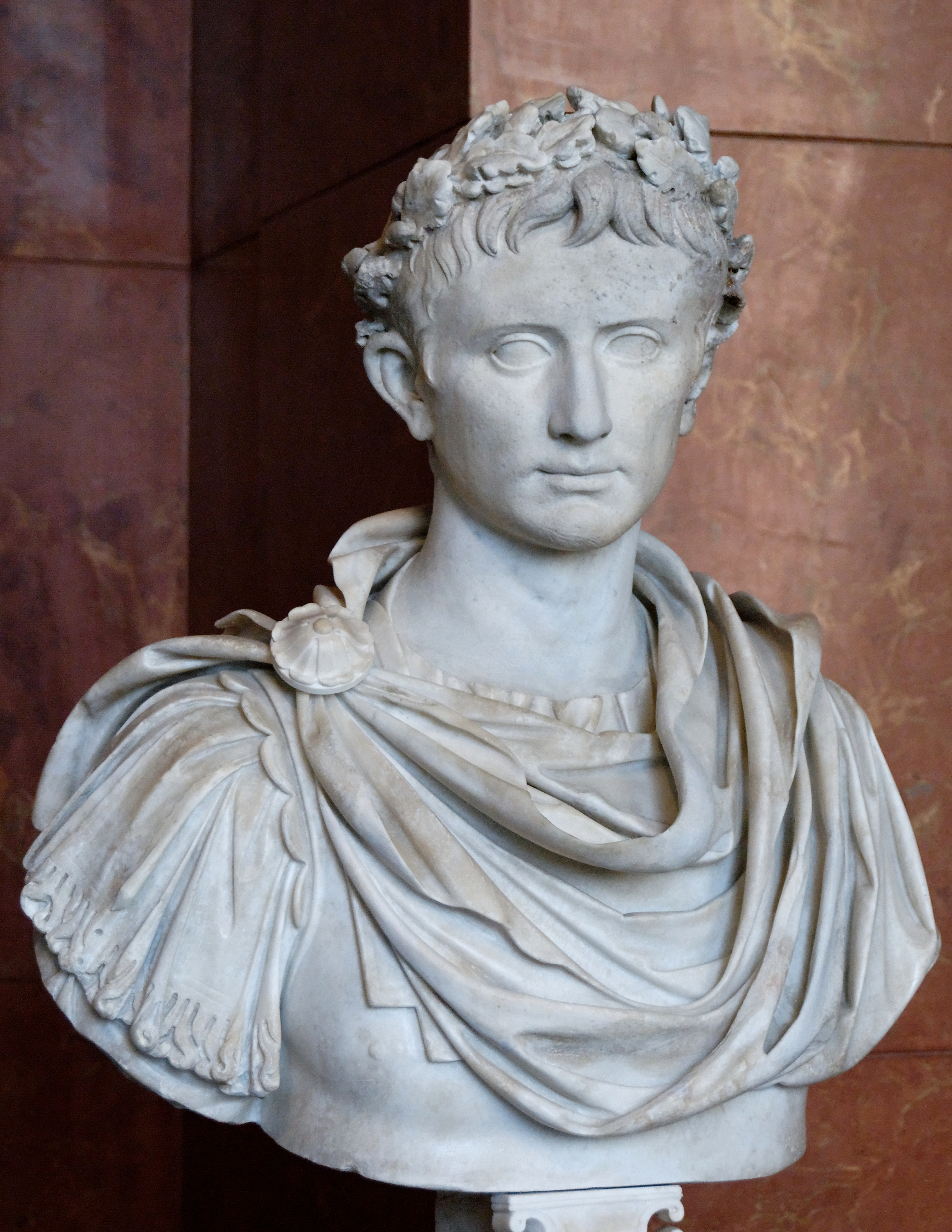 Portrait of Augustus of the Prima Porta type. Marble, early 1st century AD.